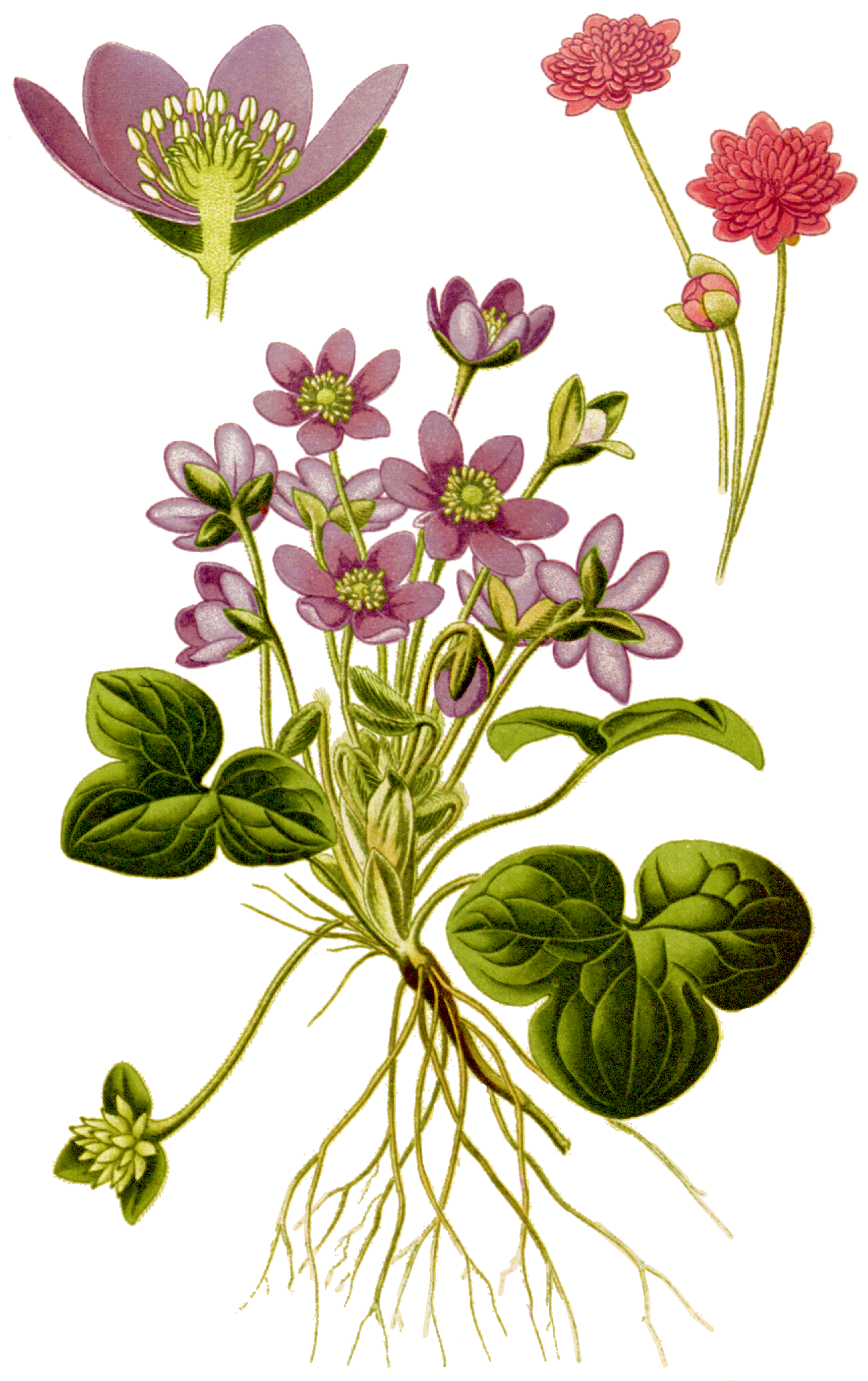 Common Hepatica Plate No. 5, from Favourite Flowers or Favourite flowers of garden and greenhouse by Edward Step, F.L.S. the cultural directions edited by William Watson F.R.H.S. Assistant Curator, Royal Gardens, Kew; illustrated with three hundred and sixteen coloured plates, selected and arranged by D. Bois Assistant chaire de culture au Museum d'Histoire Naturelle de Paris., Vol 1